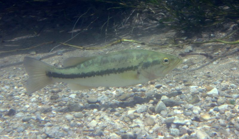 Largemouth bass (Micropterus salmoides). Canon 300D with EWA Marine housing.